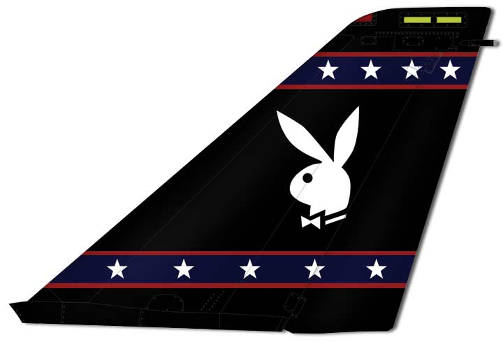 The tail of a US Navy F-14D Tomcat, belonging to VX-9, the "Vampires". Original created in Adobe Photoshop by Erik Hess in 2004.